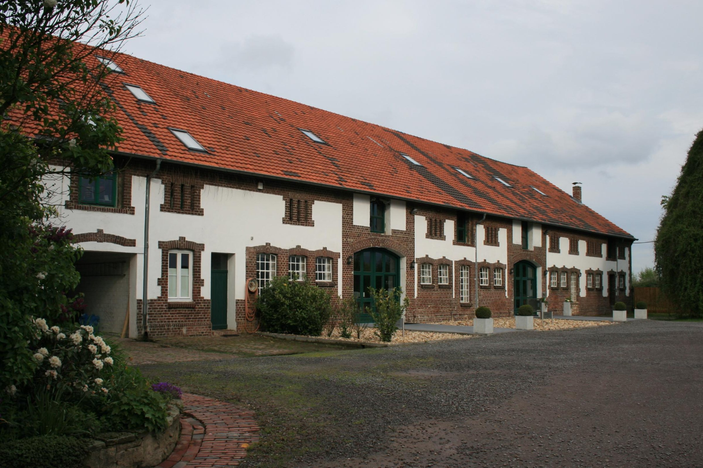 Cultural heritage monument No. K 060 in Mönchengladbach